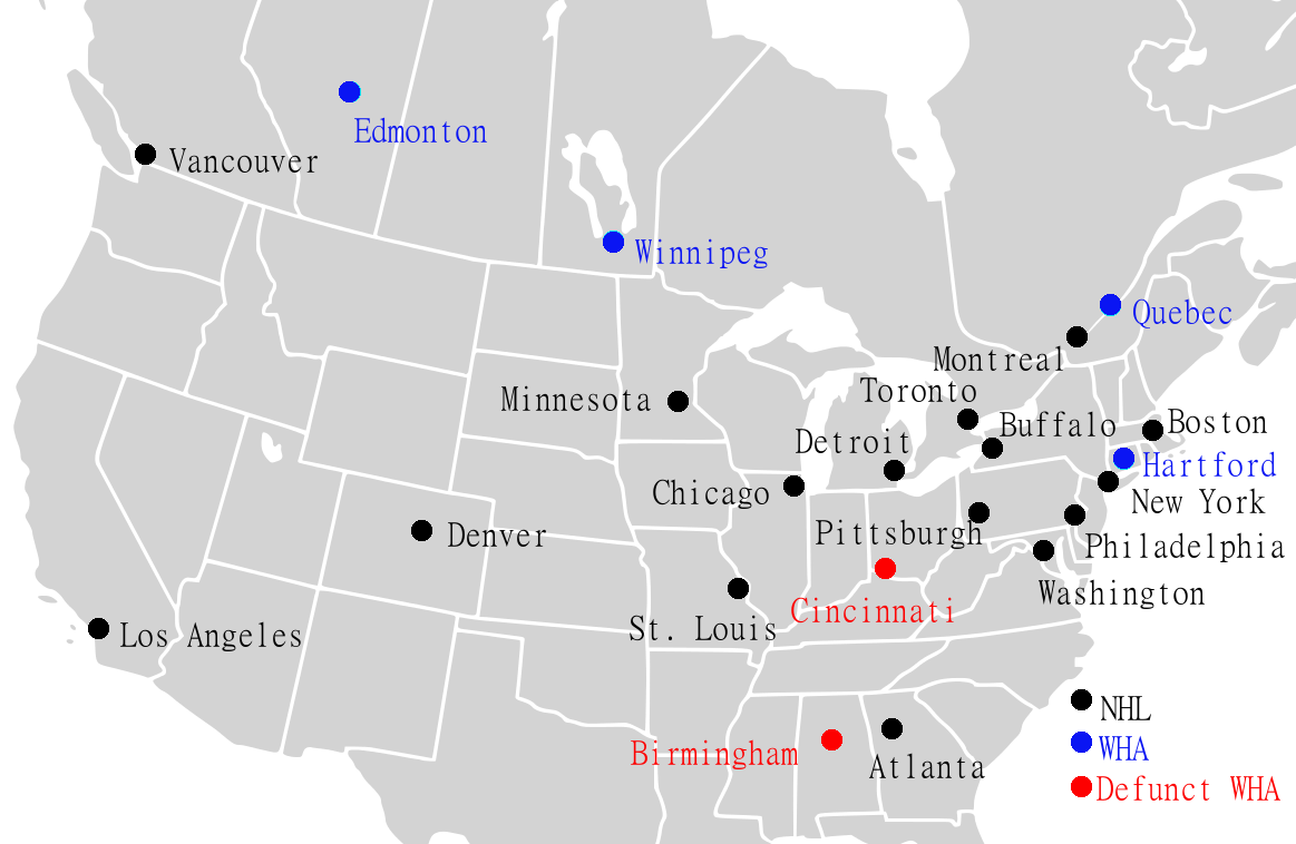 A map of the NHL and WHA teams at the time of the NHL-WHA merger. Four of the six teams that played in the last WHA season joined the NHL, while the Birmingham Bulls and Cincinnati Stingers joined the CHL before going defunct in the in the 1980s.